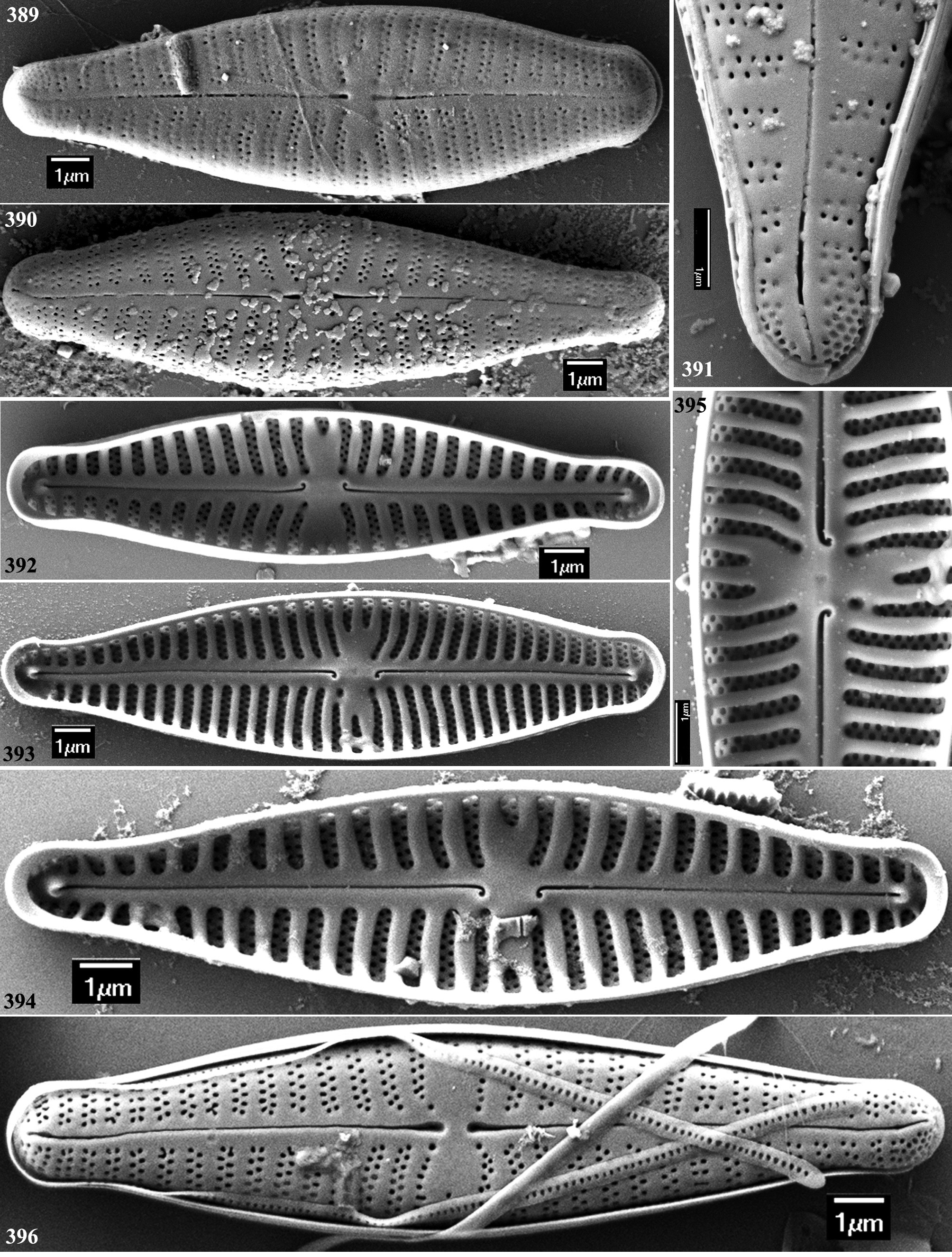 Image extracted from: KOCIOLEK, J. P., KULIKOVSKIY, M. S., & SOLAK, C. N. (2013). The diatom genus Gomphoneis Cleve (Bacillariophyceae) from Lake Baikal, Russia. Phytotaxa, 154(1), 1. licensed under the Creative Commons Attribution Licence (CC-BY)